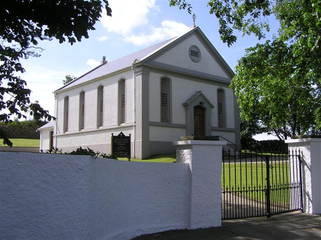 Carndonagh Presbyterian Church It is located at Tulnaree